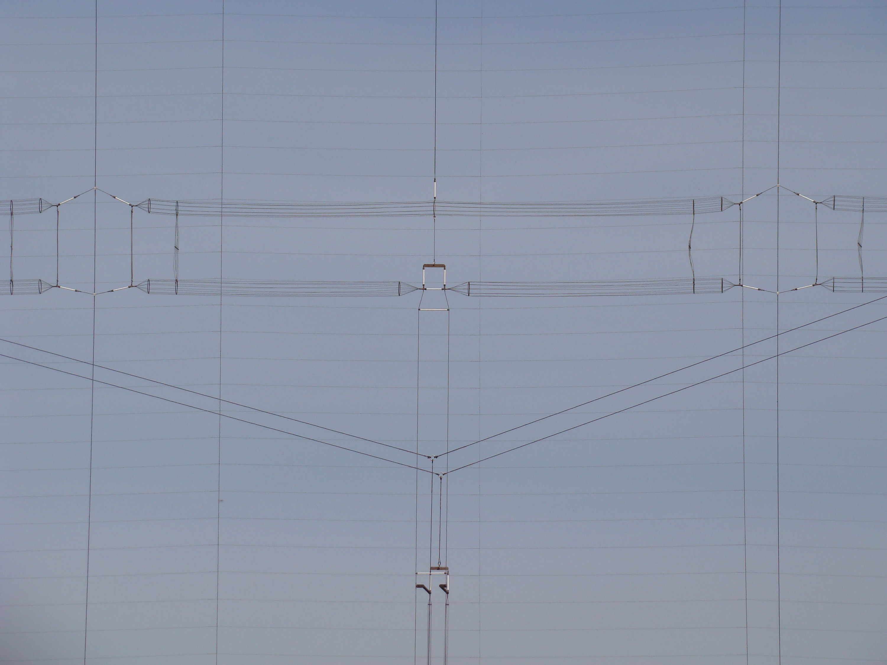 typical folded half-wave dipole from shortwave curtain-antenna